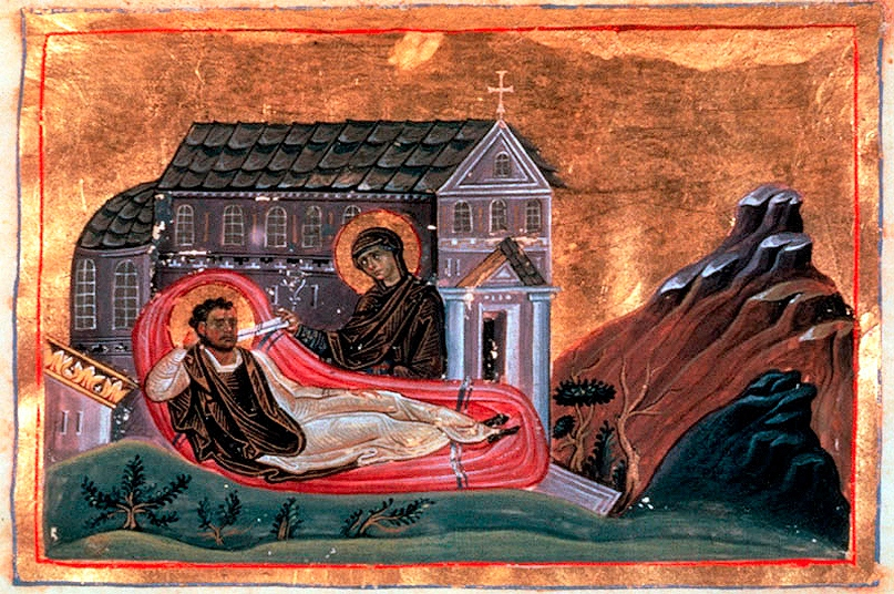 Romanos Melodos in The Menologion of Basil II